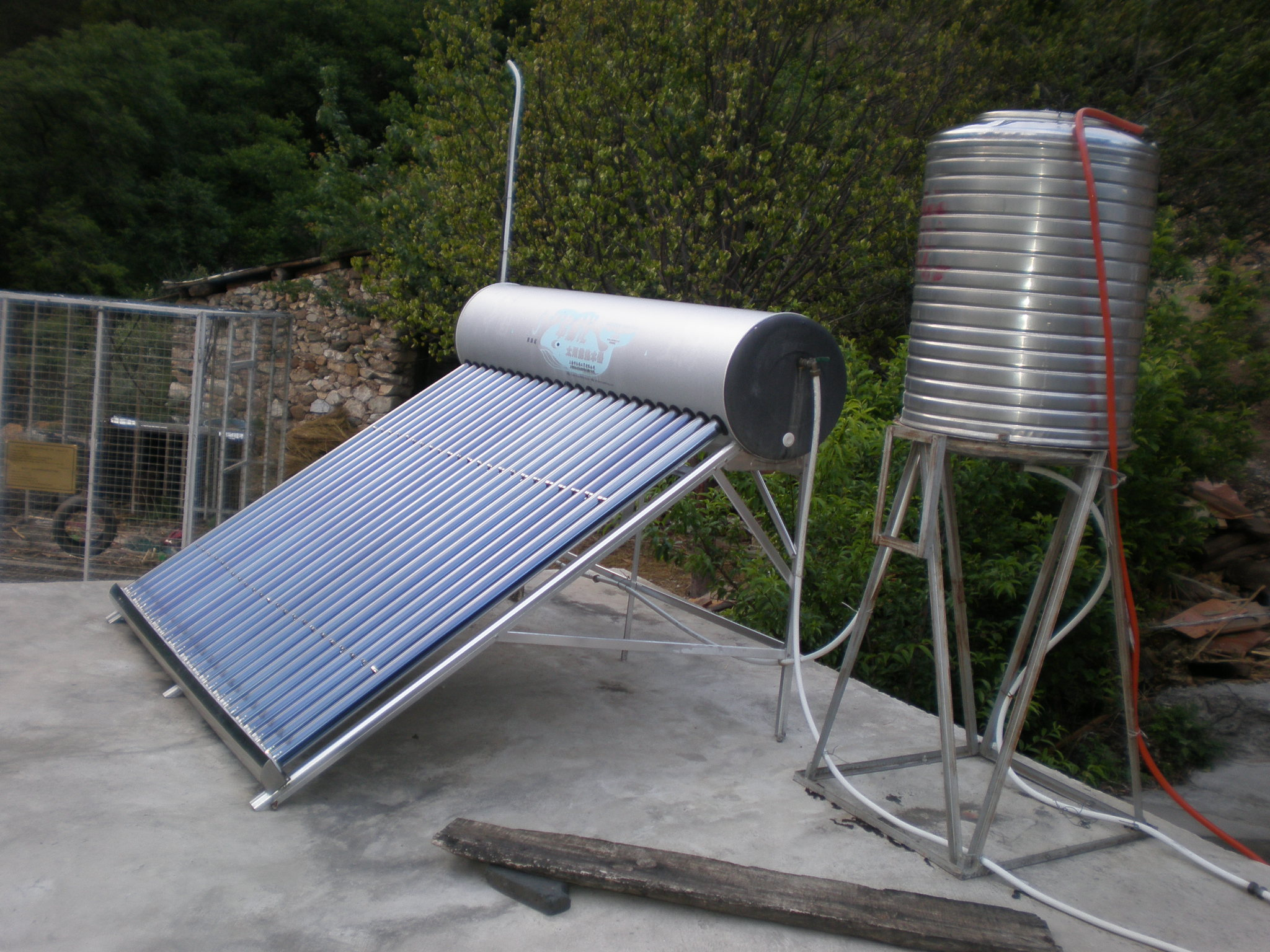 Solar panels to heat hot water at the Tea-Horse Trade Guest House along the Tiger Leaping Gorge trail in Yunnan, China.